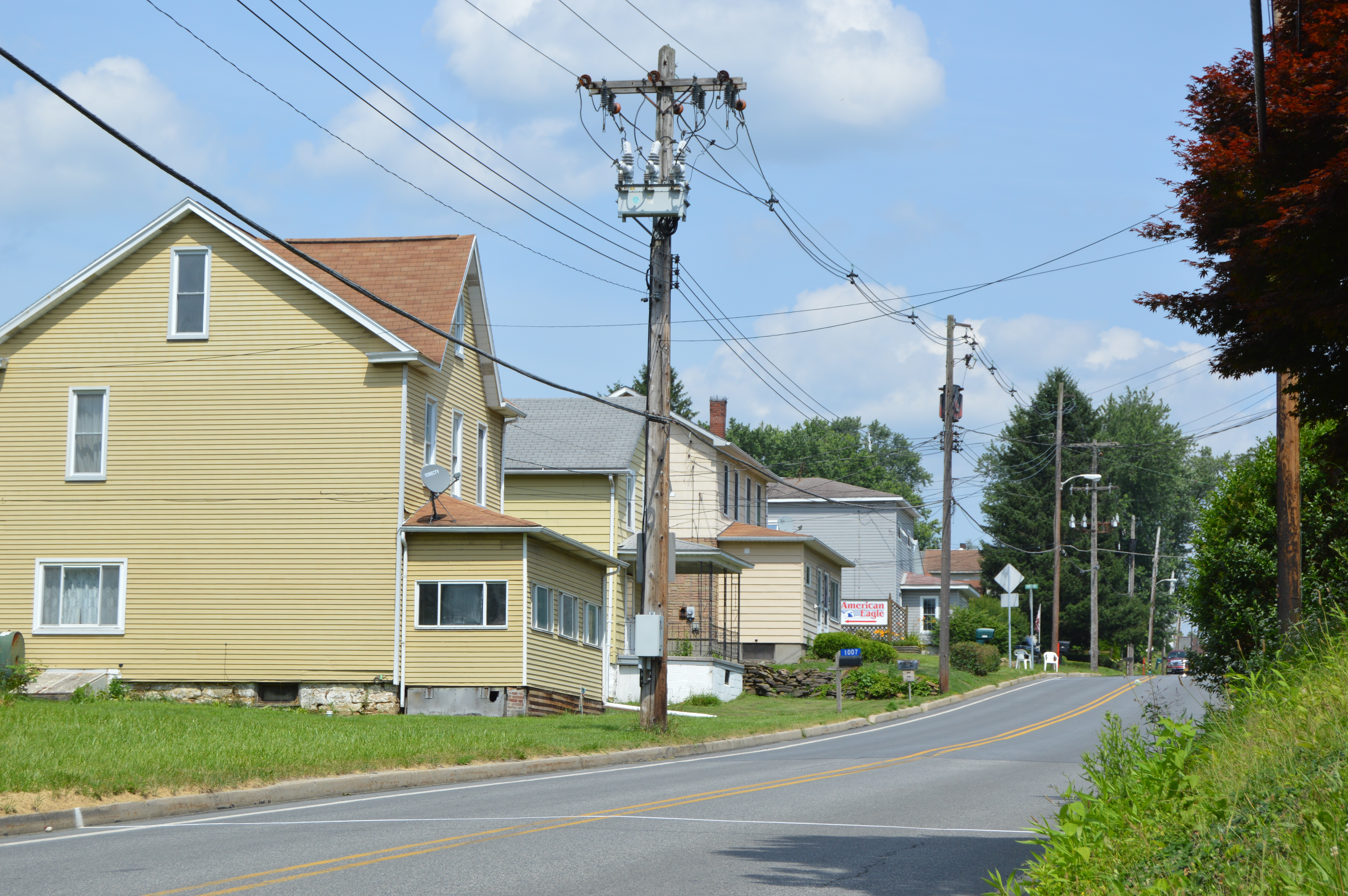 Houses on Frankstown Road east of Vogel Street, just northeast of Daisytown, in Conemaugh Township, Cambria County, Pennsylvania, United States.